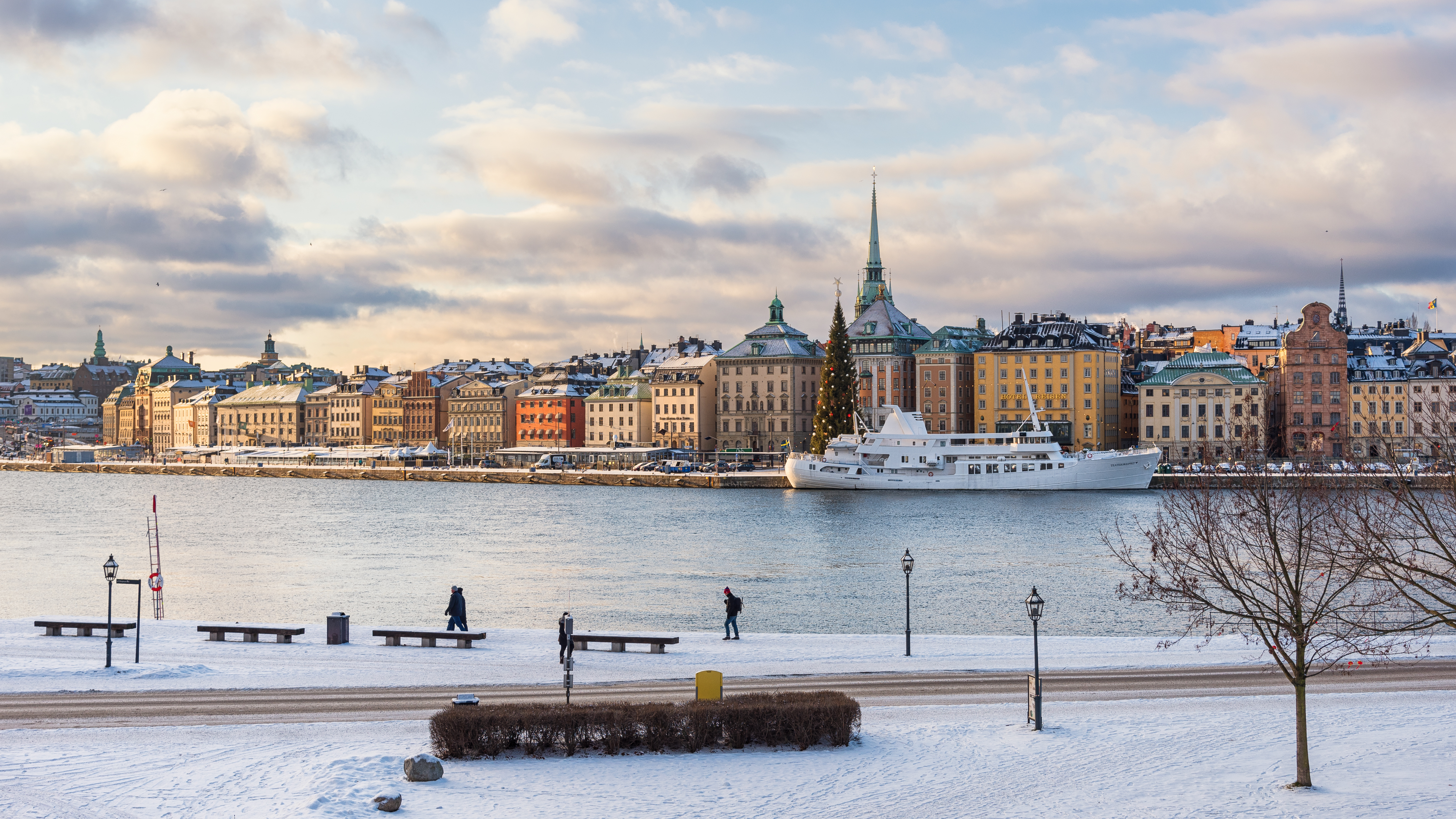 Skeppsbrokajen in Stockholm as seen from Skeppsholmen, Stadsholmen (Gamla Stan) behind it.